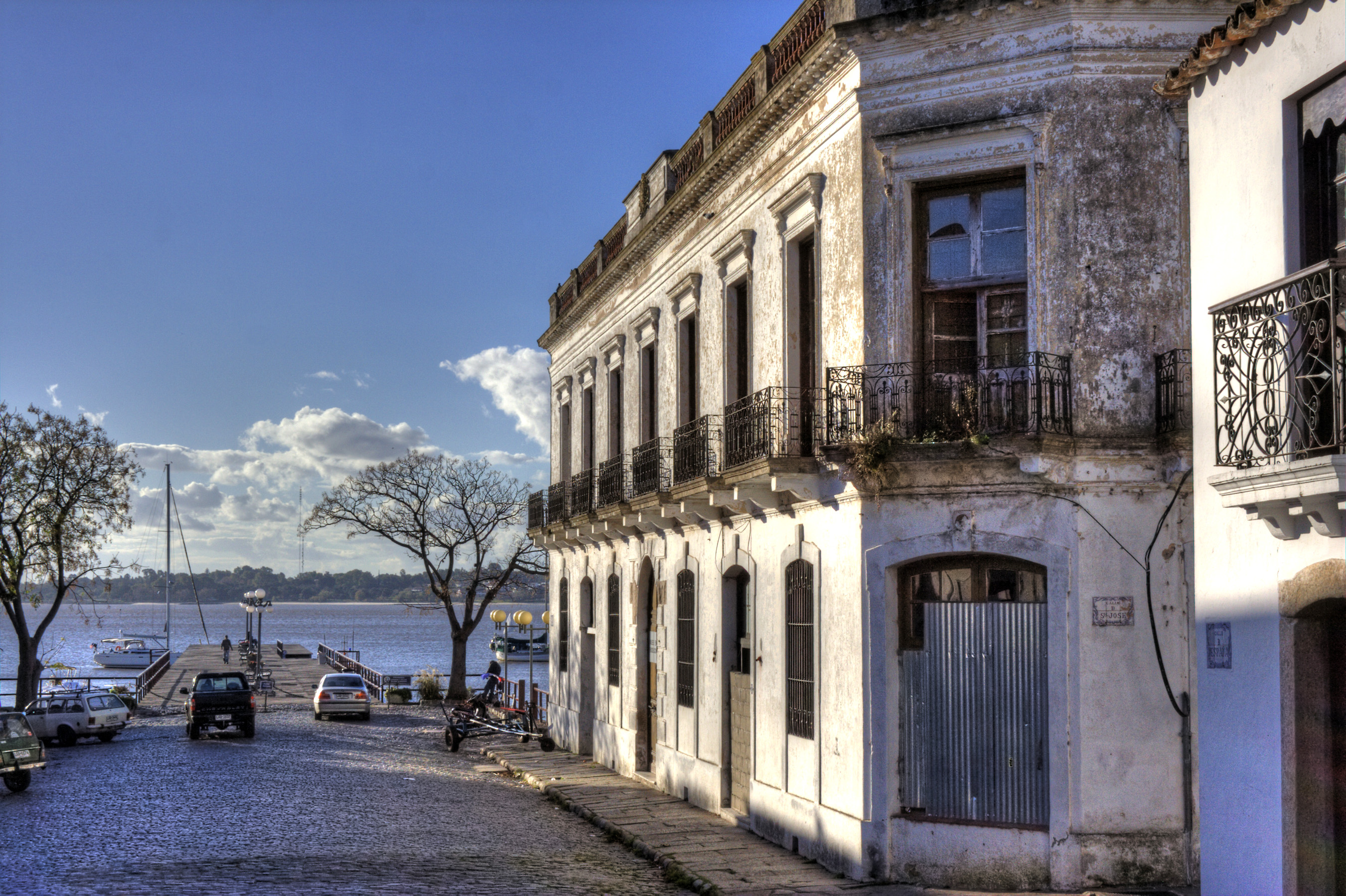 View of the Río de la Plata and the 1866 Wharf of Colonia, Uruguay.